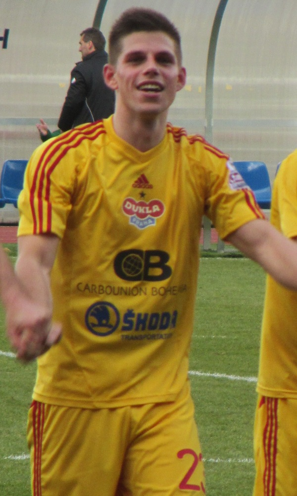 Ondřej Vrzal of FK Dukla Praha during the match against FK Baumit Jablonec